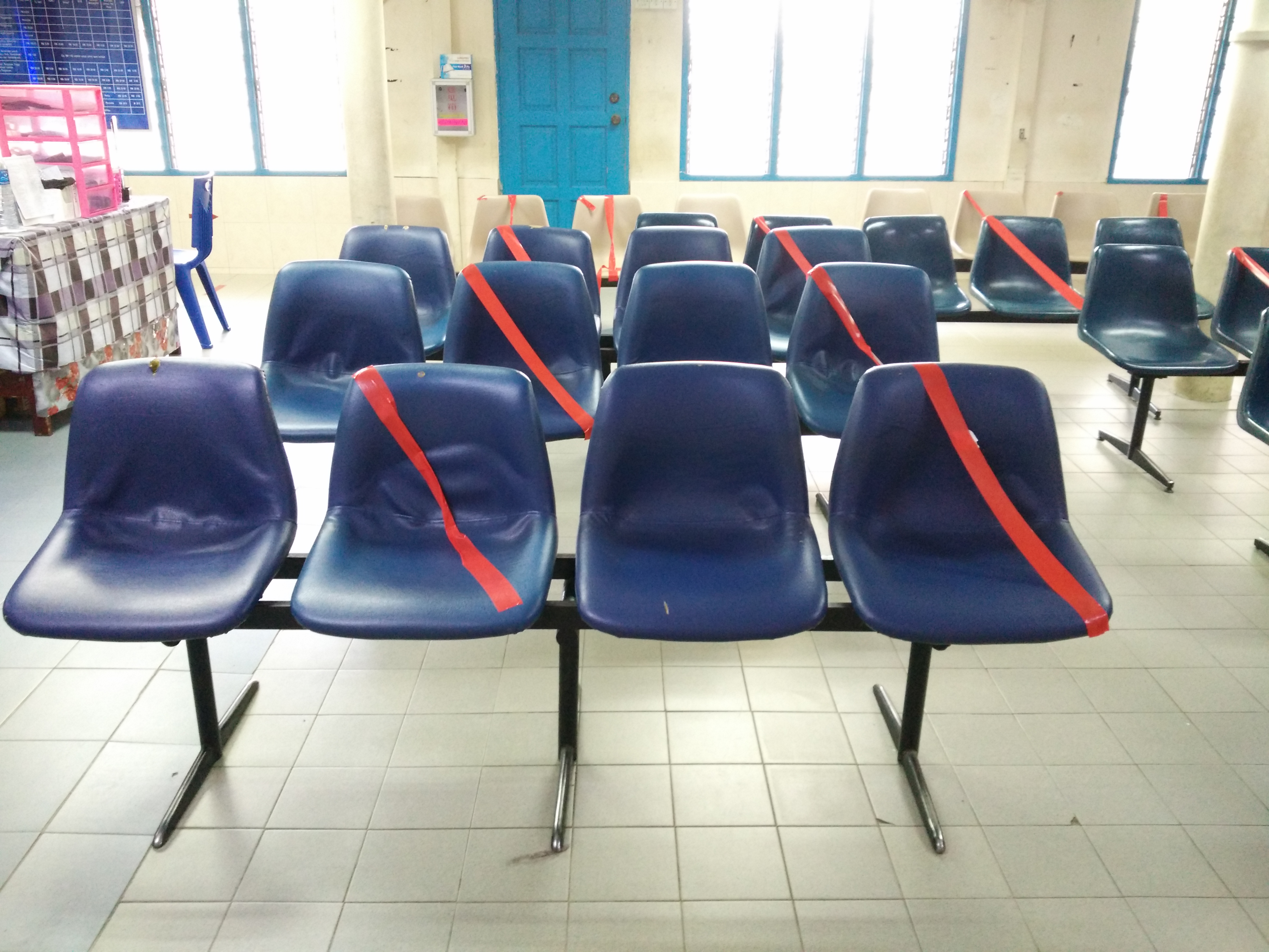 Interspacing seats in Bintangor clinic during the COVID-19 pandemic